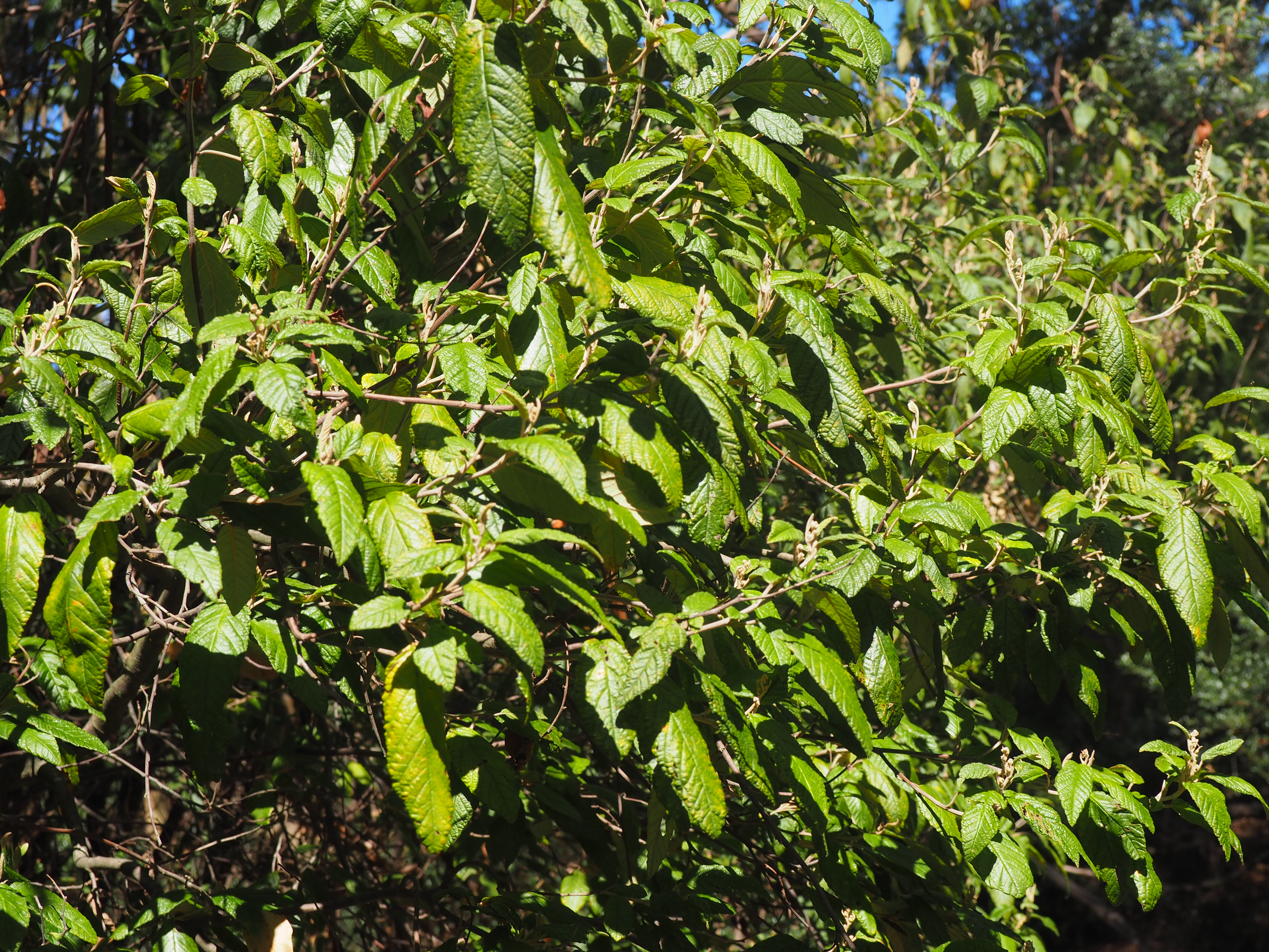 Pomaderris apetala plant growing on the University of Tasmania Reserve, Sandy Bay.